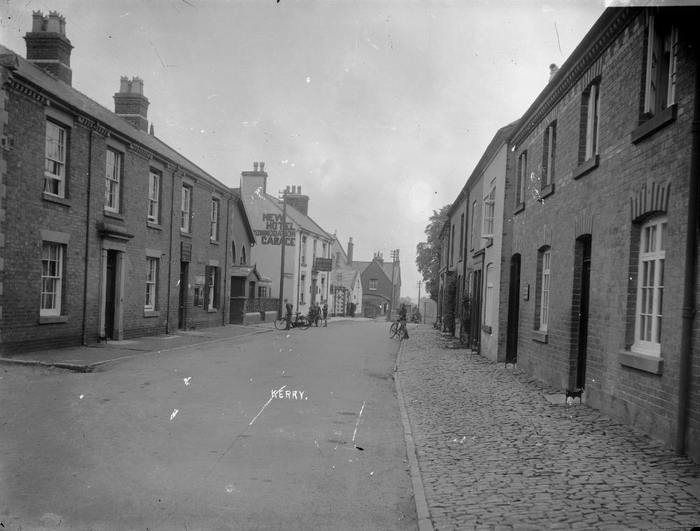 Abstract: Kerry